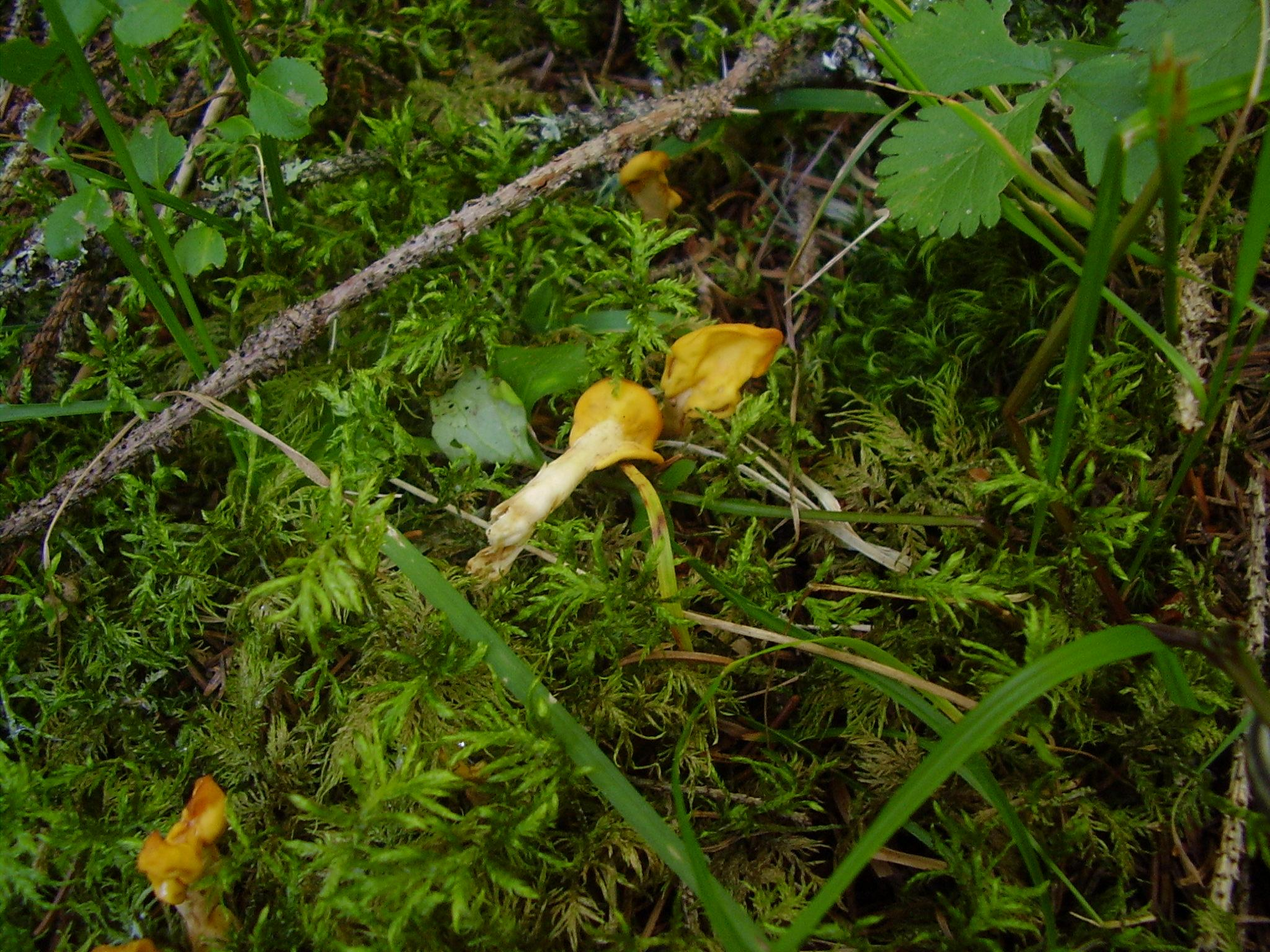 Several Spathularia flavida fruitbodies in moss. Coniferous forest in Dospat region, Bulgaria.